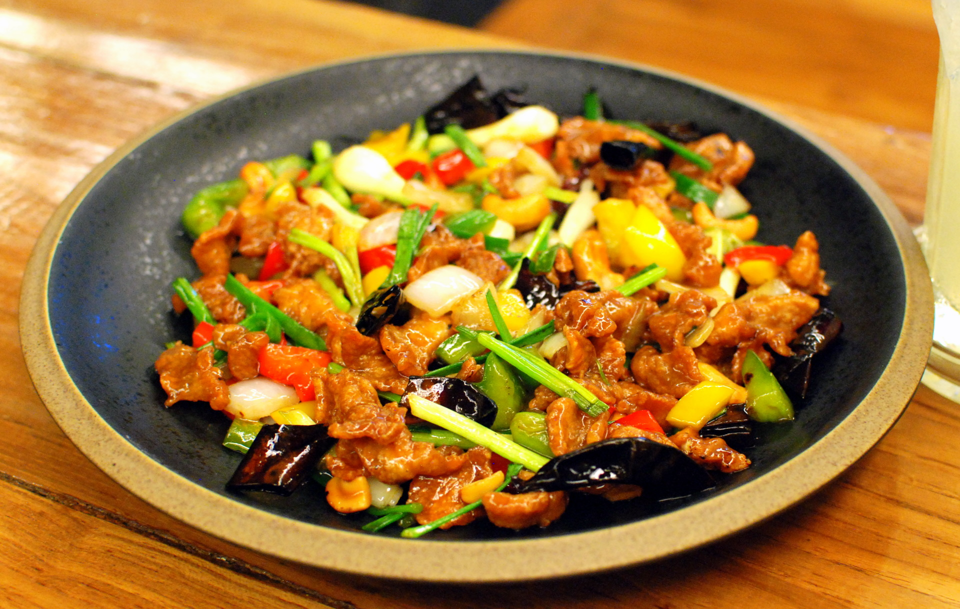 Kai phat met mamuang Himaphan (Thai script: ไก่ผัดเม็ดมะม่วงหิมพานต์) is the Thai-Chinese version of the Sechuan style fried chicken with cashew nuts known also as Kung Pao chicken, fried with whole dried chillies. Batter-coated pieces of chicken are deep fried separately before being added to the already stir-fried onions, paprika, dried chillies, spring onions and cashew nuts for a last stir.